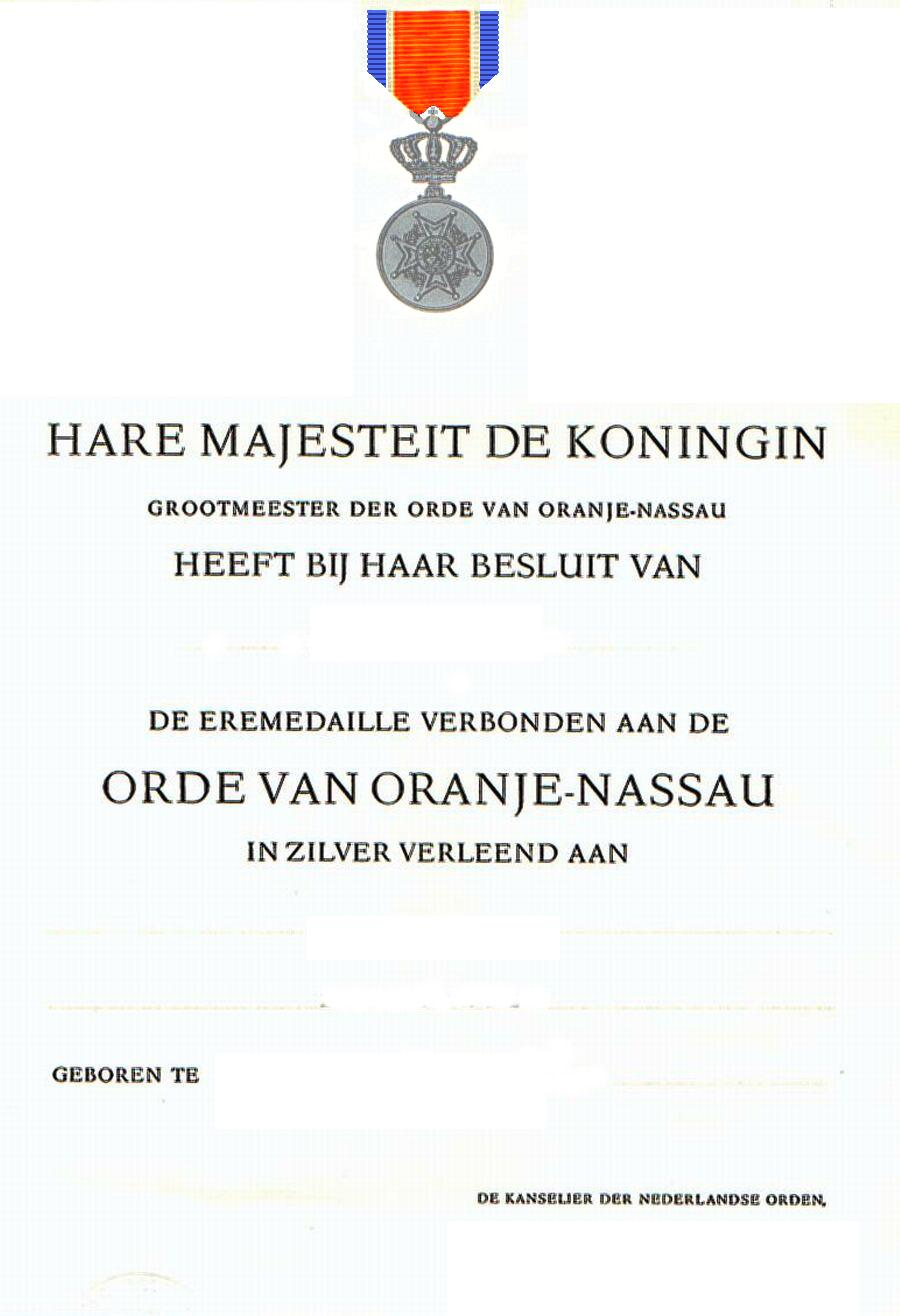 Order of Orange-Nasau, diploma of the Medal in Gold